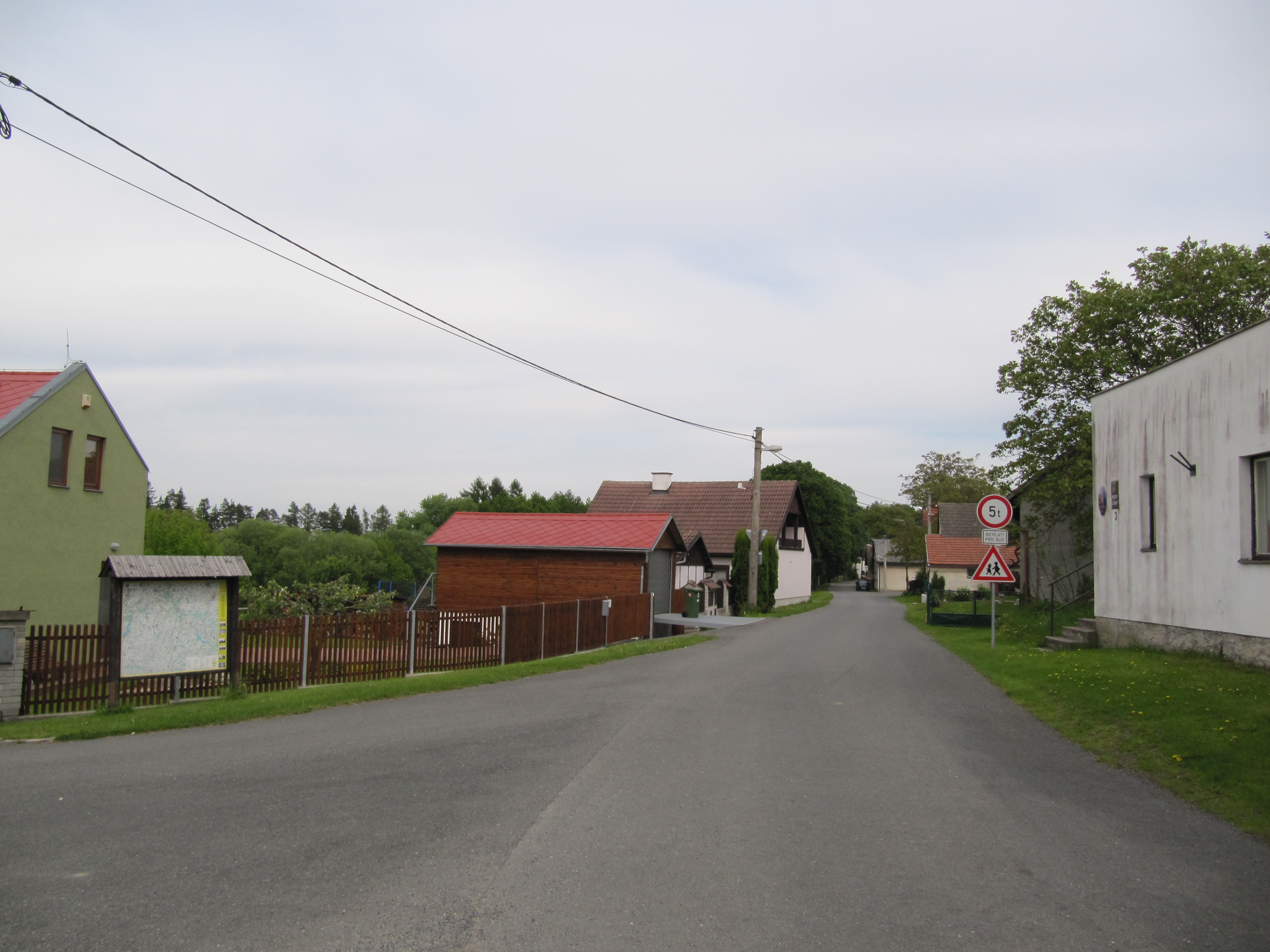 Xaverov in Benešov District, Czech Republic. Center of the village.